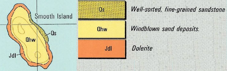 A extract of a geological survey of Smooth Island, 1982